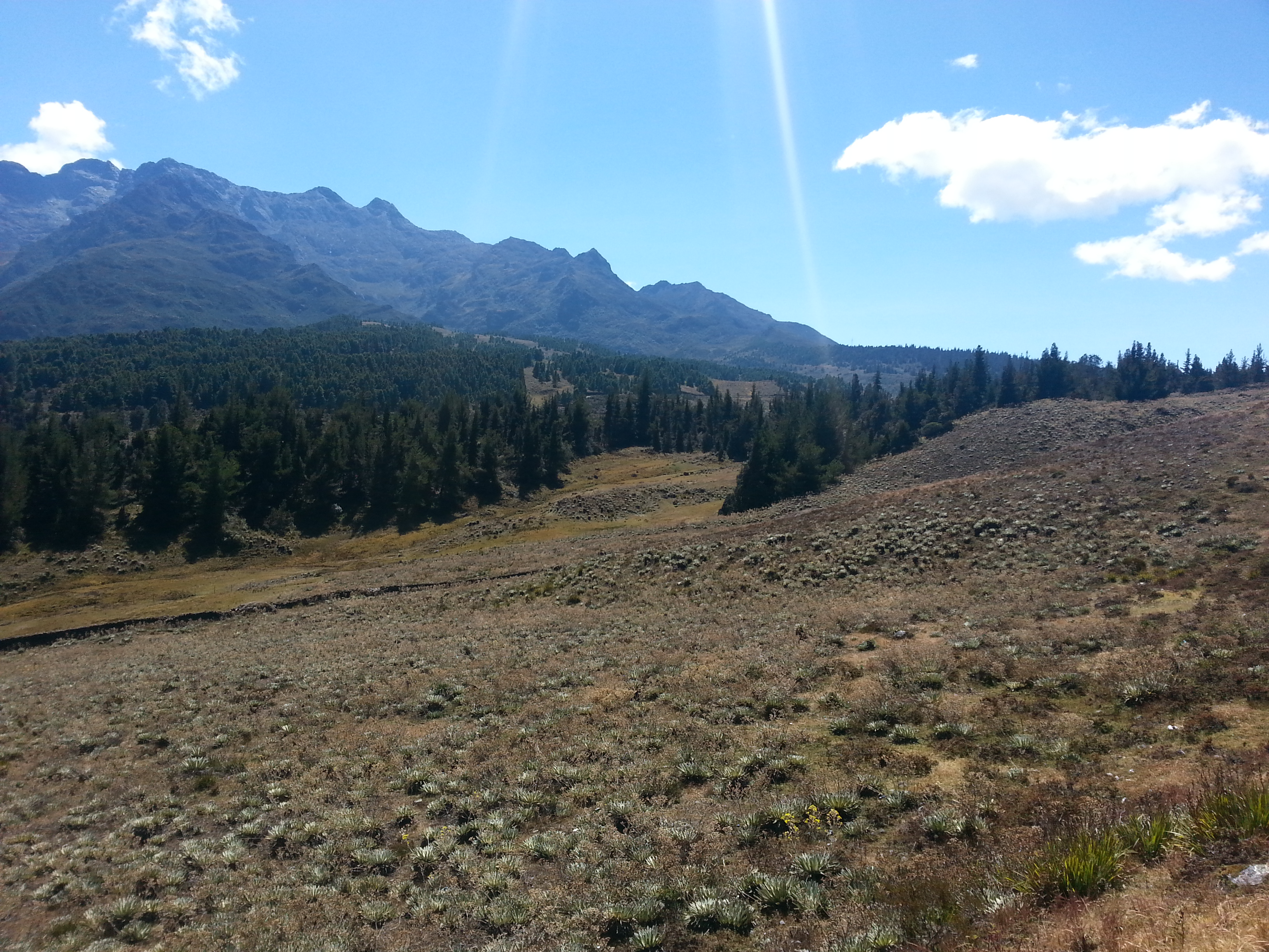 LAS MONTAÑAS EN EL PÁRAMO DEL ESTADO MÉRIDA, CORDILLERA ANDINA DE VENEZUELA